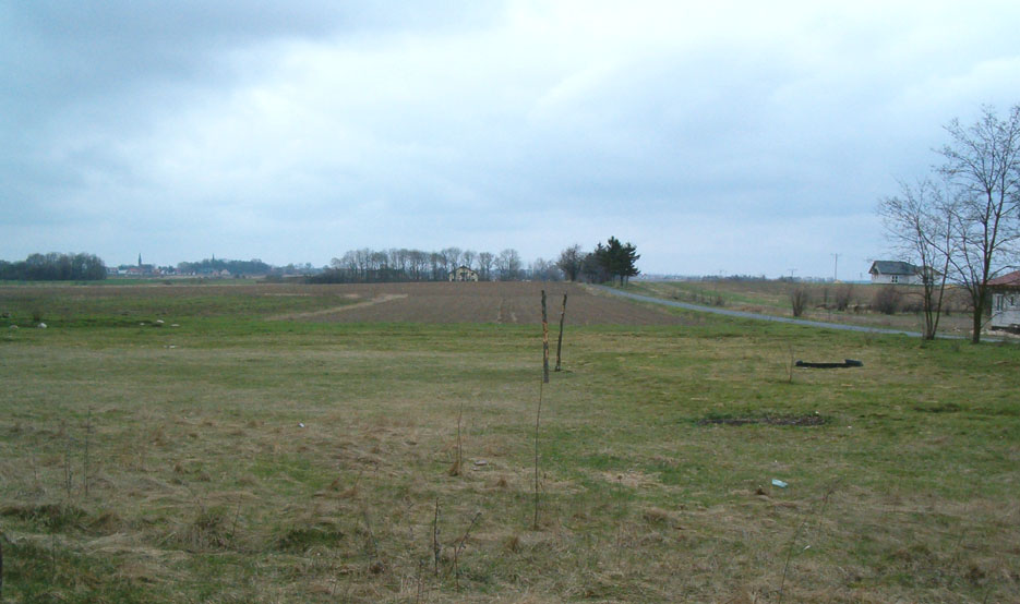 Leuthen battle area. Picture taken from south where battle had begun. Picture direction: to north where battle spread. Far away, on the left side of picture, Leuthen village is visible with two churches.